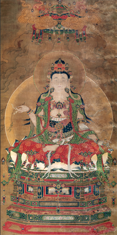 Paintings from Baoning Temple, Guanyin